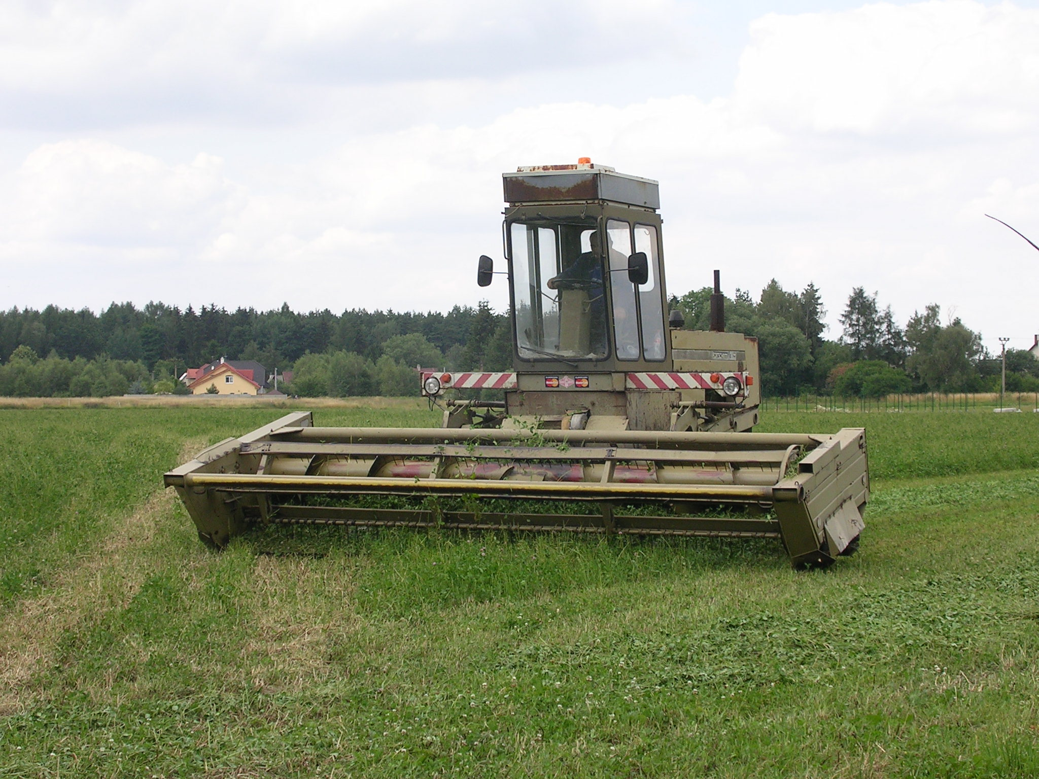 Fortschritt E 303 swather at clover harvest. Svojetice, Central Bohemian Region, the Czech Republic.